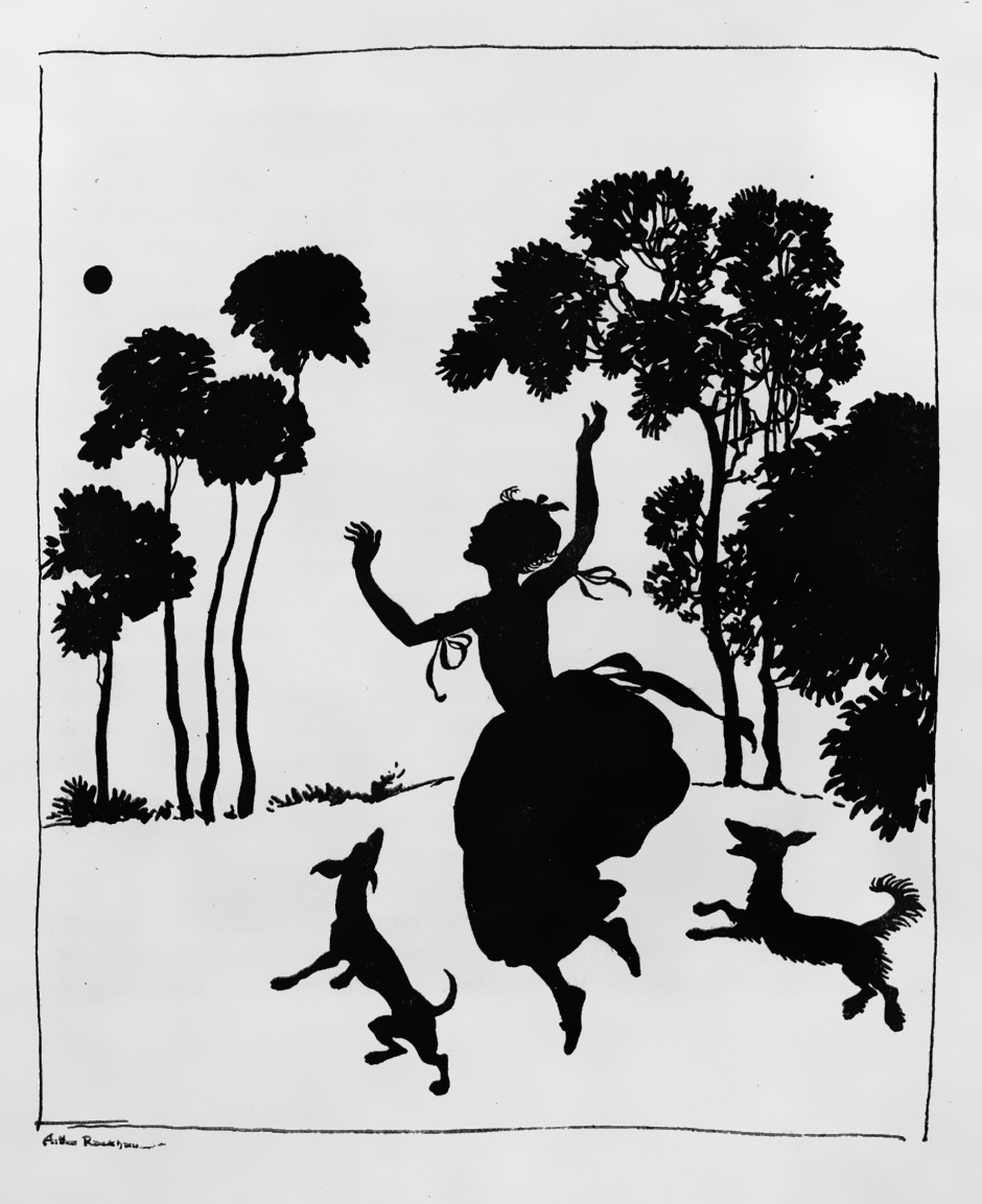 Illustration from: C. S. Evans: Cinderella. London, W. Heinemann / Philadelphia, J. B. Lippincott, 1919.